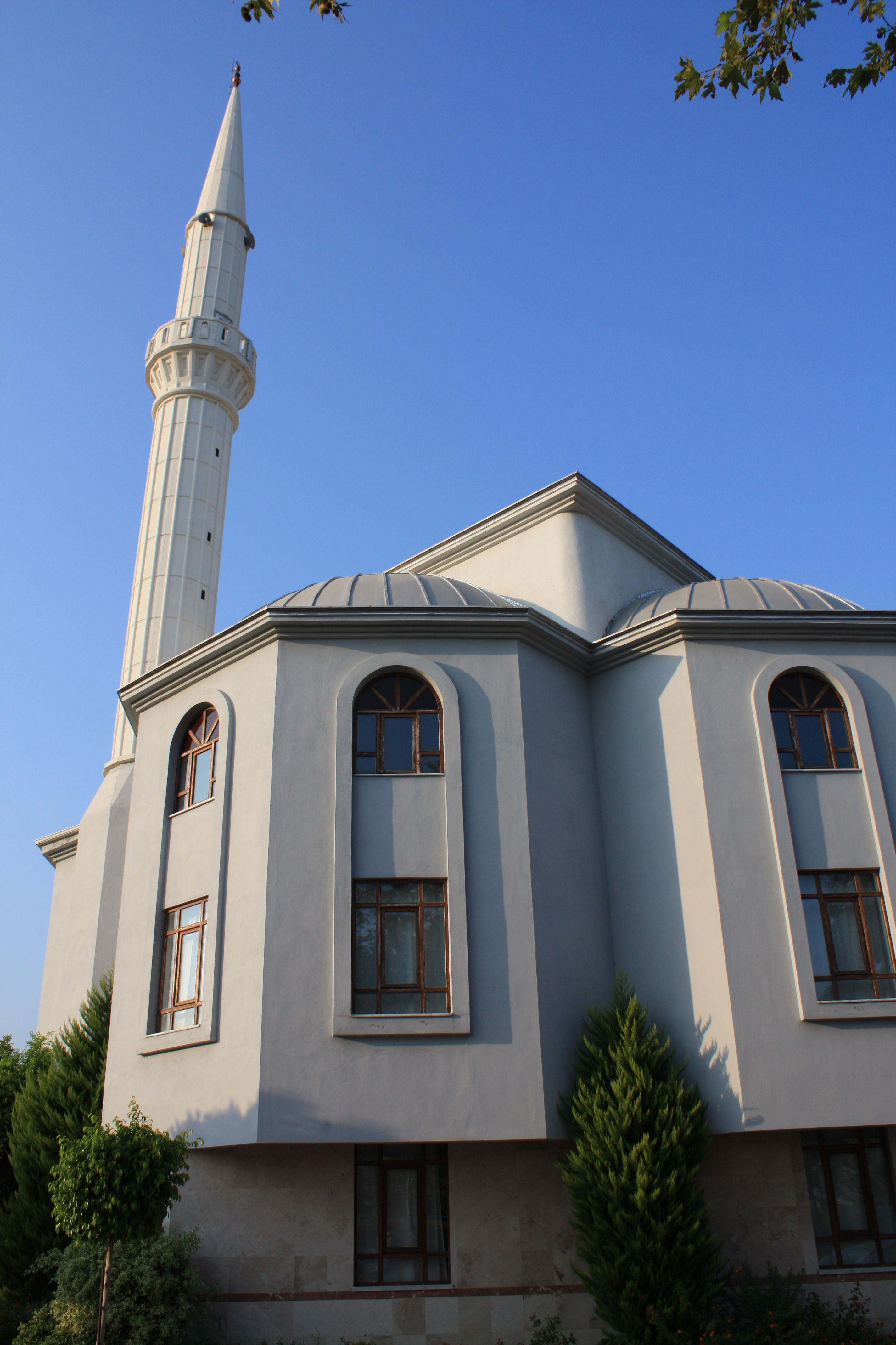 Mosque in Konakli, Turkey.